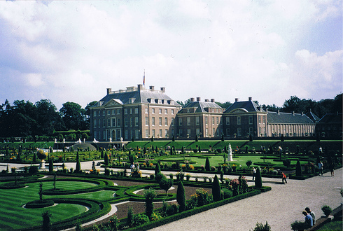 Taken by JE at UWO U/T in 2002 at Palace Het Loo, in Apeldoorn, Holland.